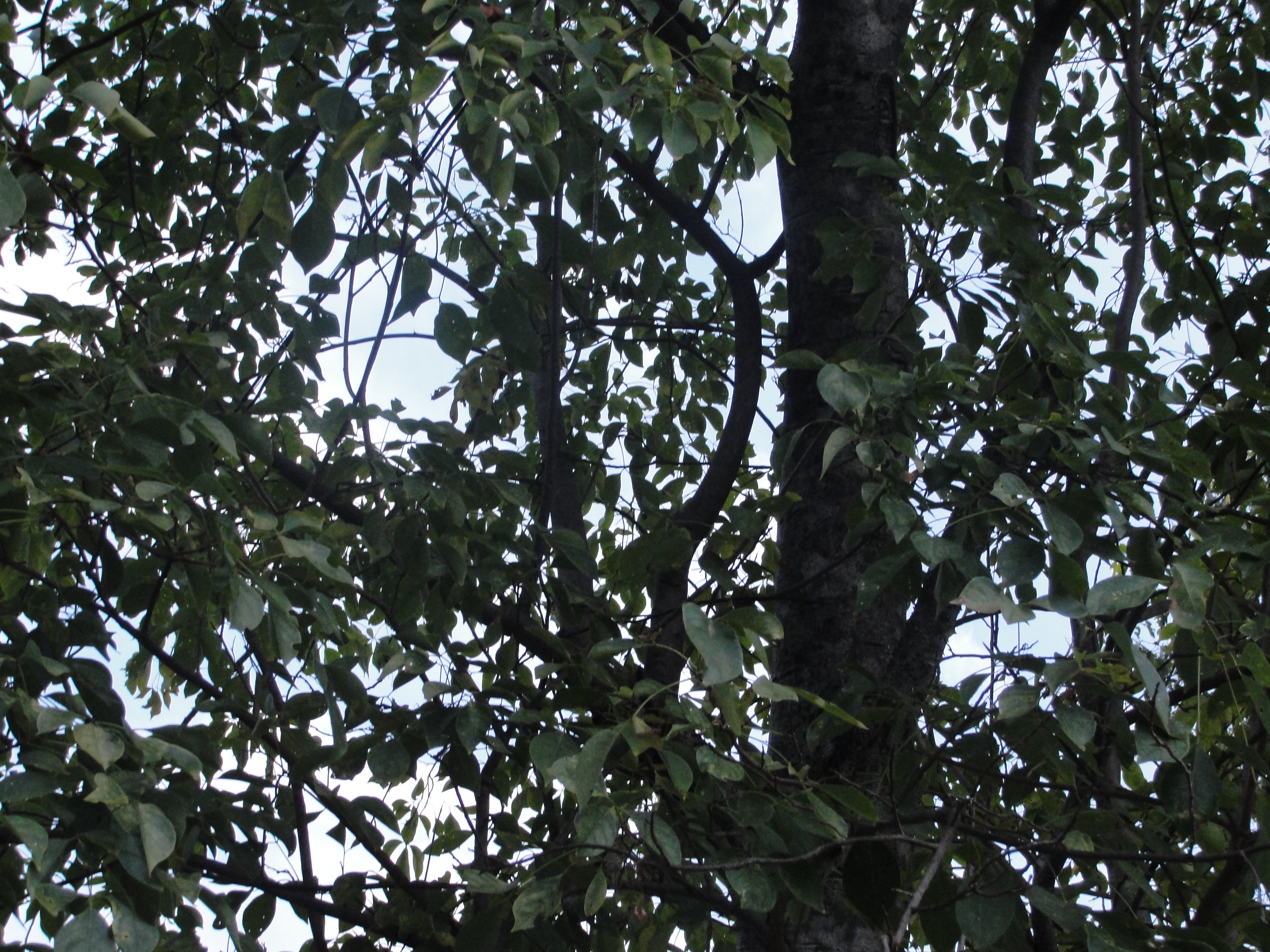 A view of PachchiyammaaL Temple tree